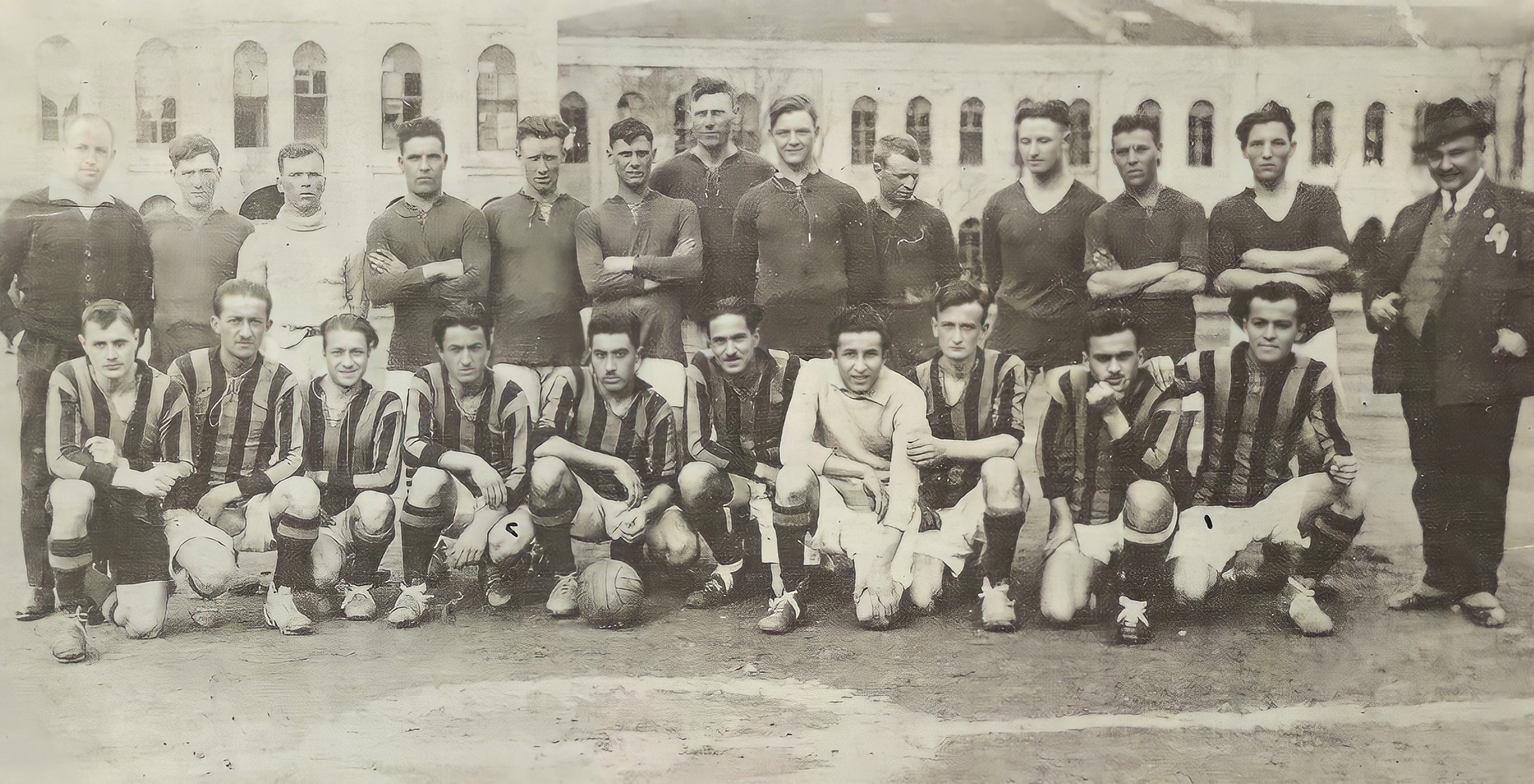 Fenerbahçe and British team named Artillaries squads before the match between the two teams, 4 March 1923.